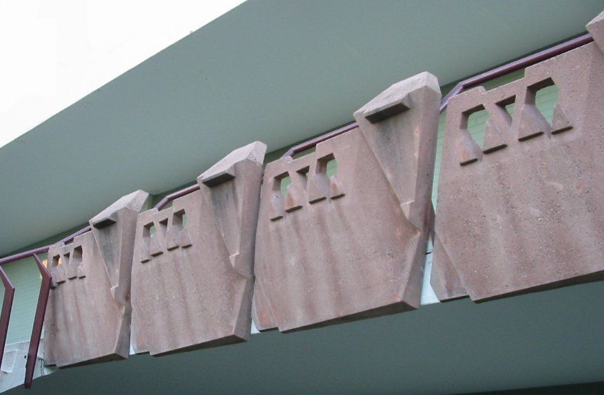 Photograph of the red cast concrete motif which repeats horizontally along the length of each wing of the Hotel Valley Ho in Scottsdale, Arizona.